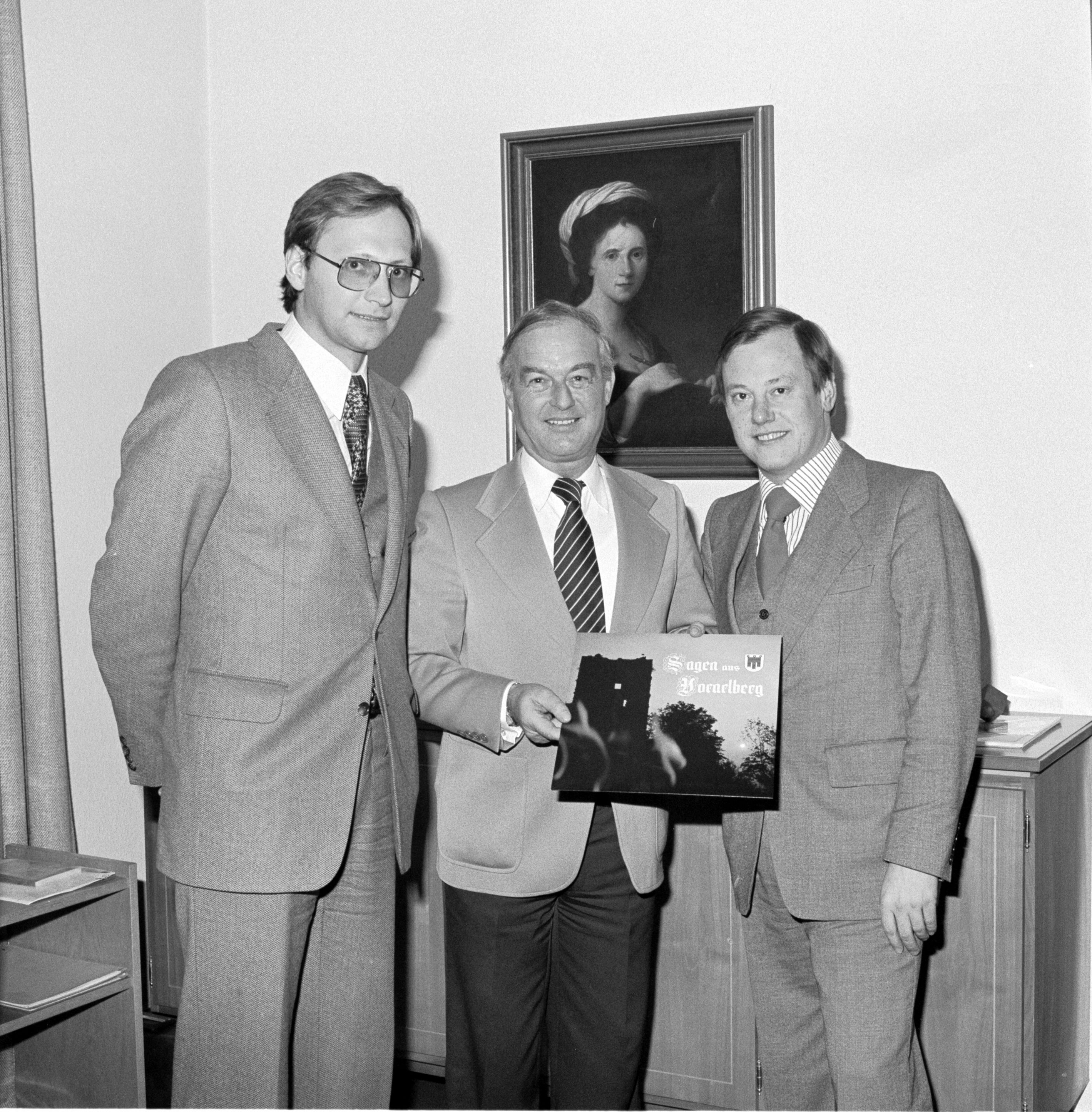 "7 Legends from Vorarlberg" - handing out a record (vinyl) by Hans Gruber (center, aka "Thurnhers Hannes") to Siegfried Gasser (right) on December 12, 1977. The original image is available at